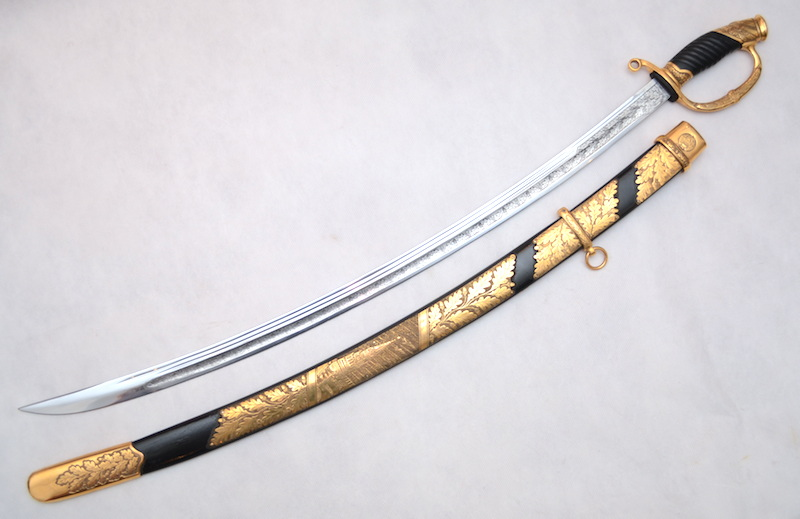 Honor weapon with golden image of the State Emblem of the USSR 5